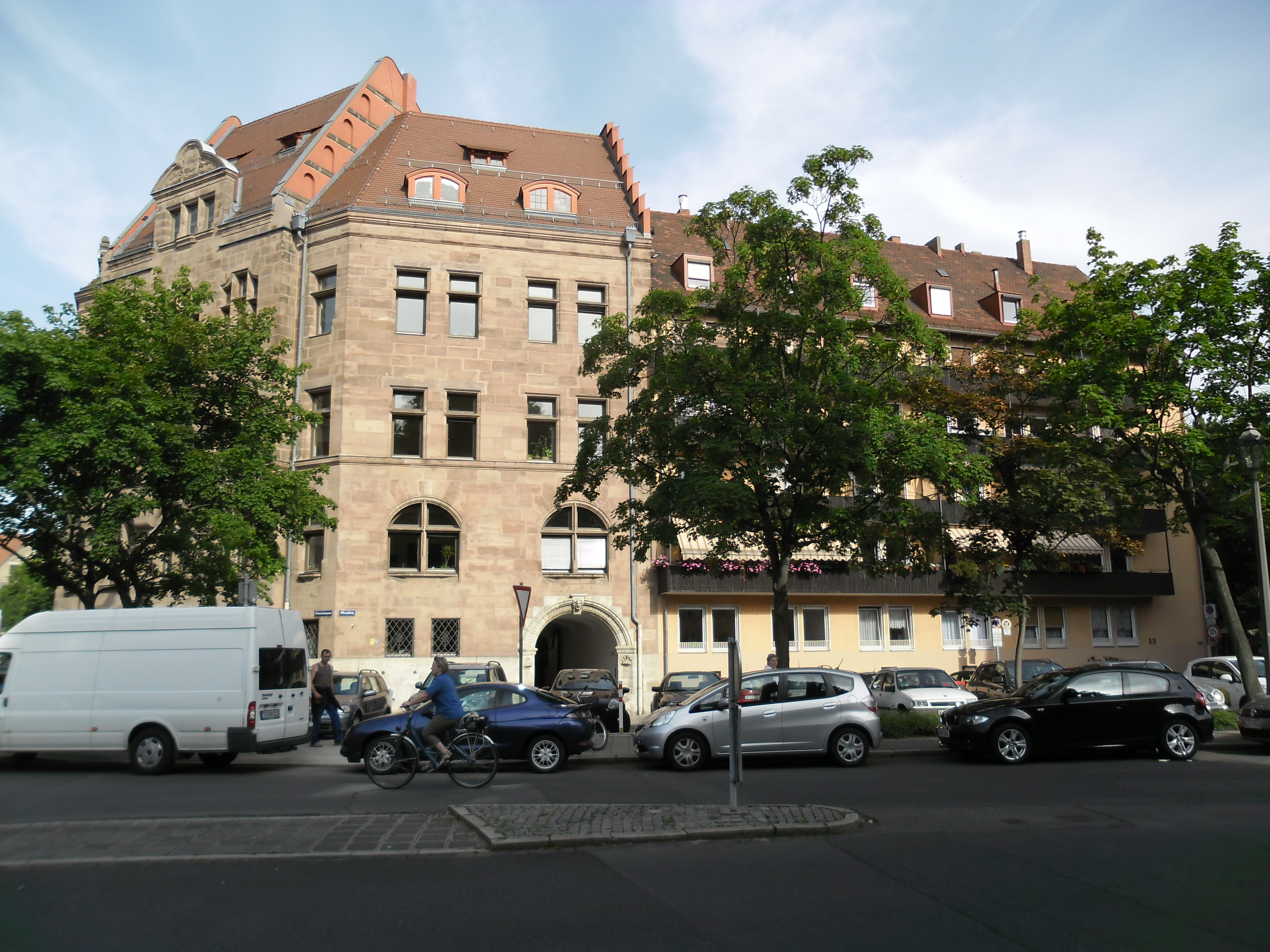 The Social Court of Nuremberg at the Maxplatz